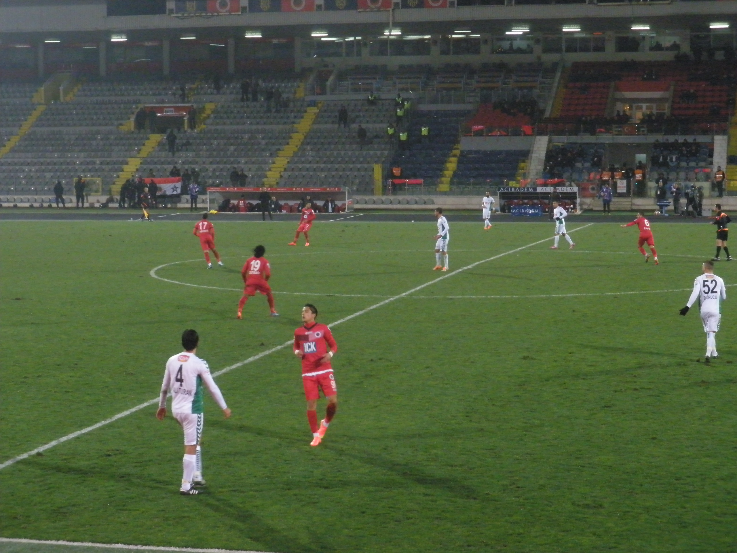 Turkish Cup match: Gençlerbirliği 2-0 T. Konyaspor